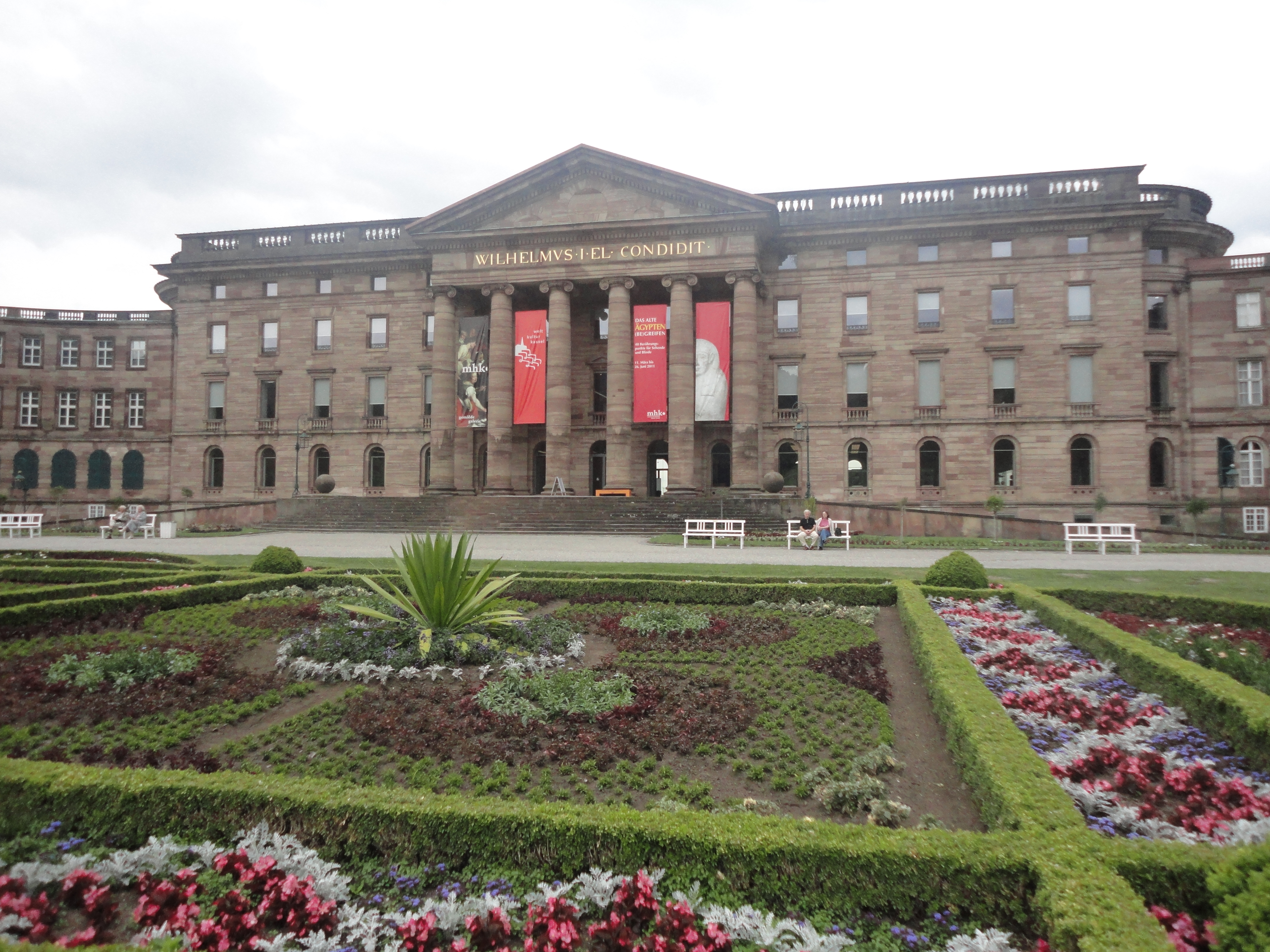 Wilhelmshöhe Castle in Kassel, GermanyThis is a photograph of an architectural monument.